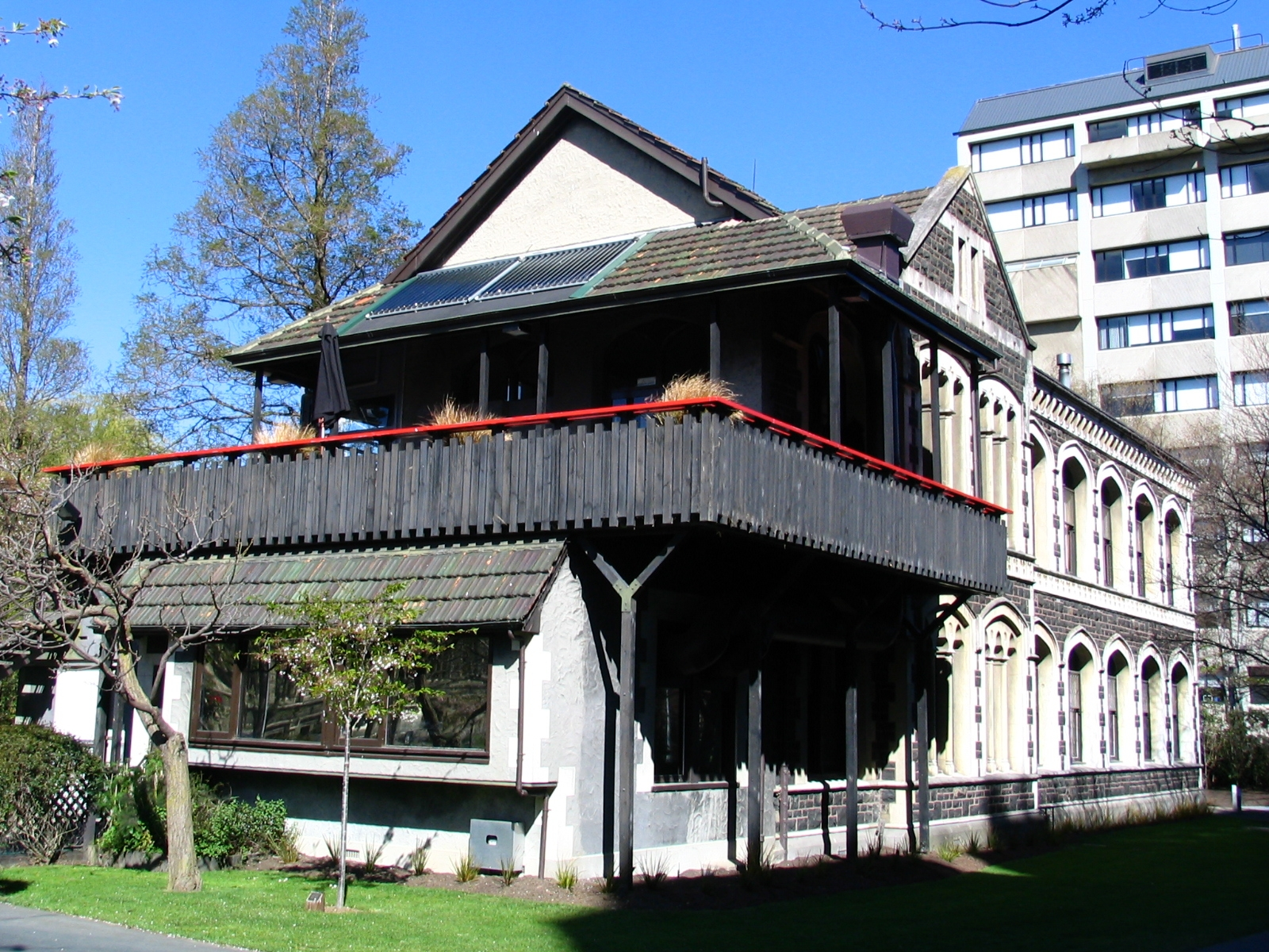 University of Otago Staff Club, Dunedin, New Zealand. New Zealand Historic Places Trust Register number: 2230.